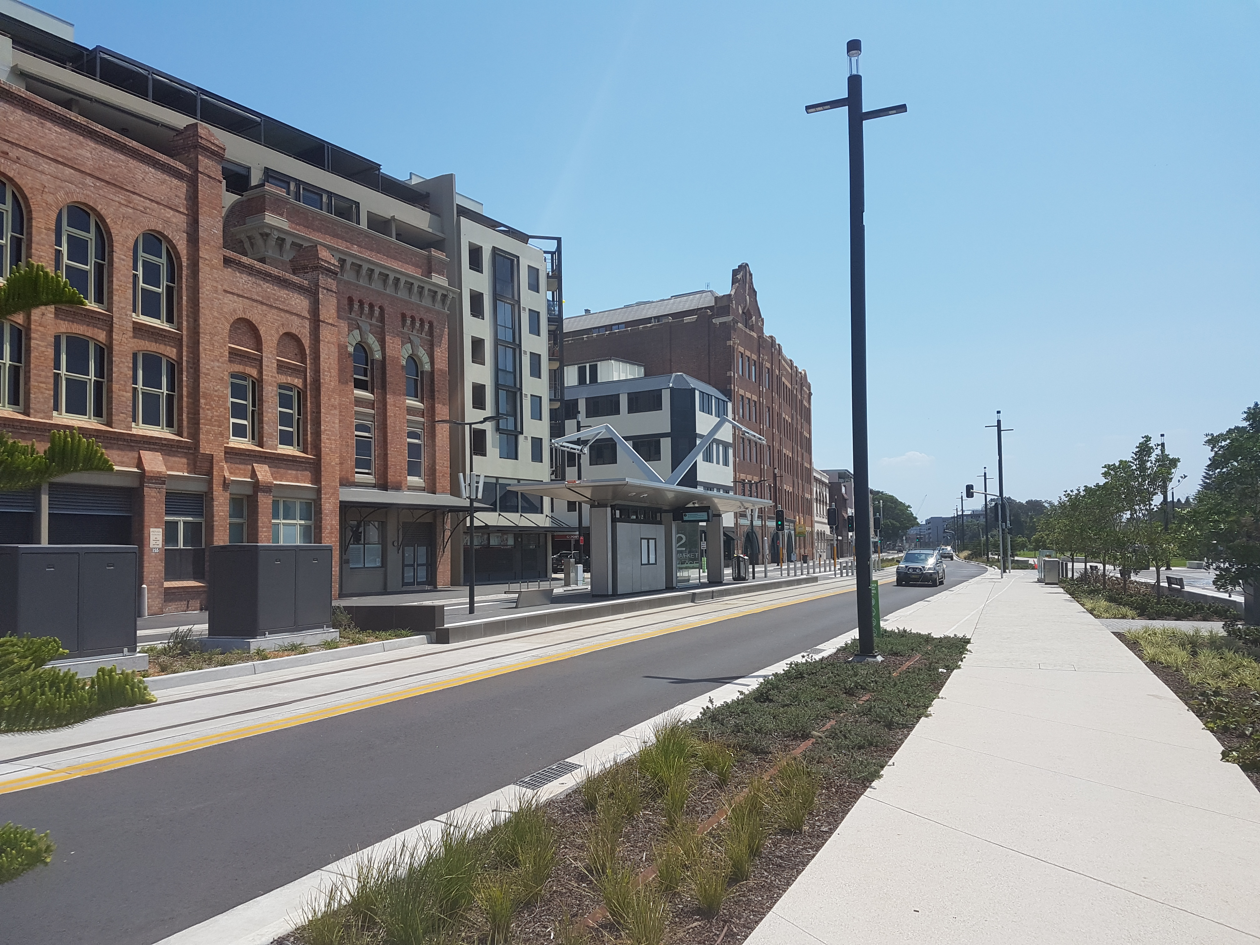 Newcastle Light Rail Queens Wharf station